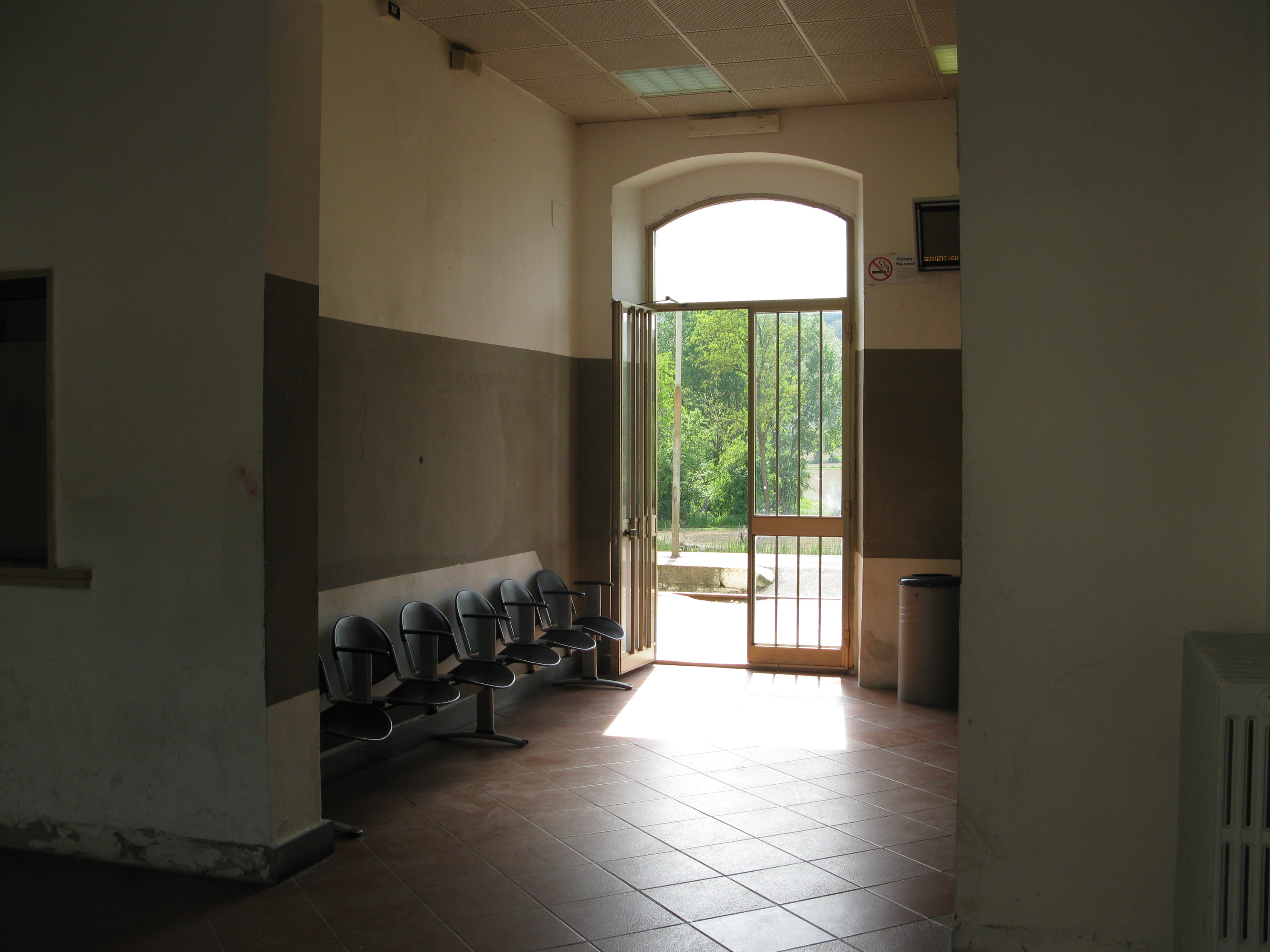 Dicomano railway station, waiting room